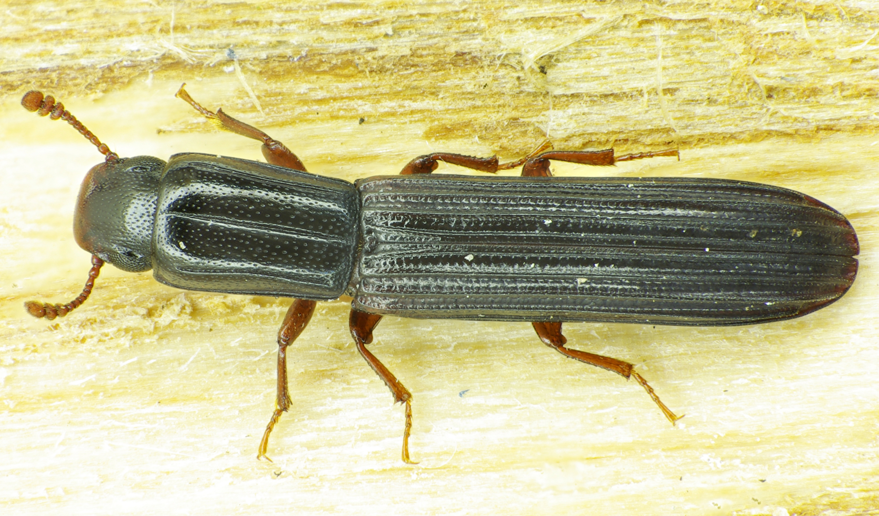 Colydium elongatum from Hungary near Mohács under bark of oak at 2012-07-25